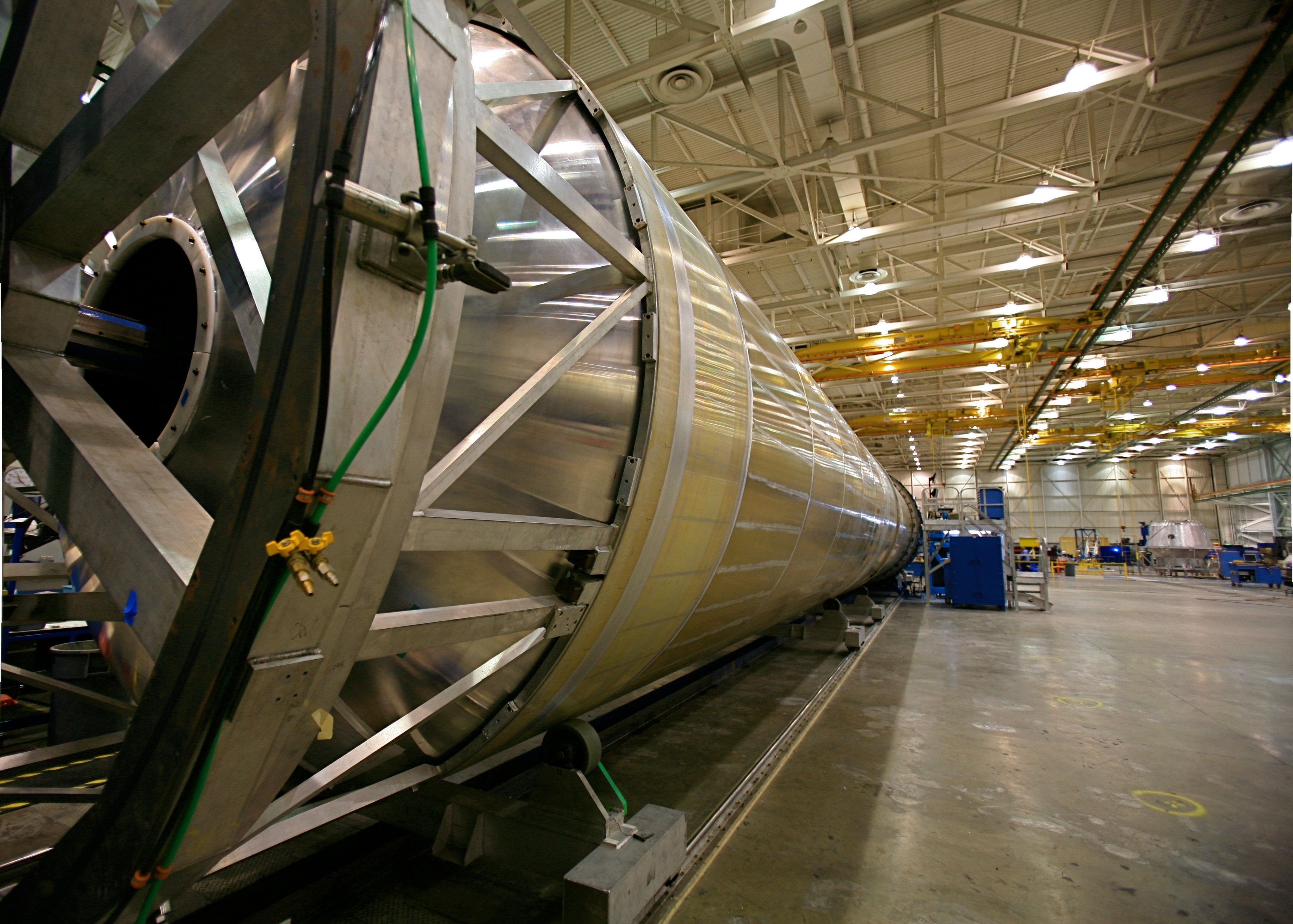 The Falcon 9 booster tank is made of aluminum lithium alloy. Welding it without forming hydrogen bubbles is tricky. SpaceX uses friction stir welding throughout. I had to crop the welding jig from the photo because of ITAR restrictions. Let me just say that it is very clever, and the challenges are like building a ship in a bottle.